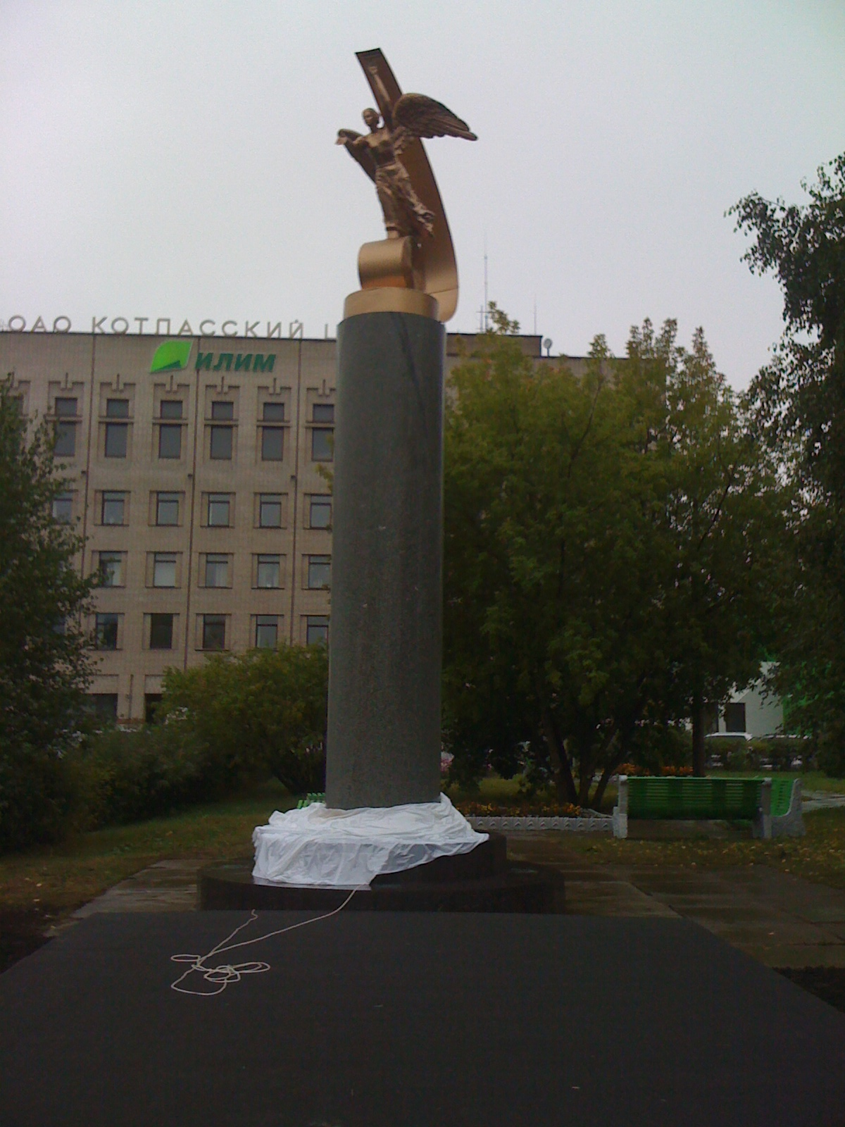 The monument in memory of the 50th anniversary of the Kotlas Pulp and Paper Mill